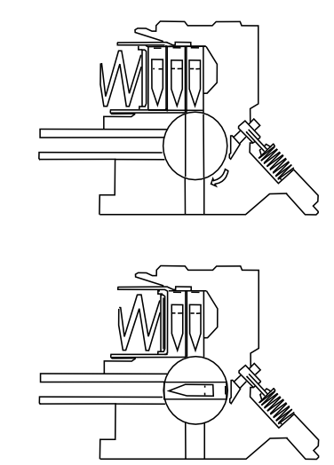 HK G11 Feed